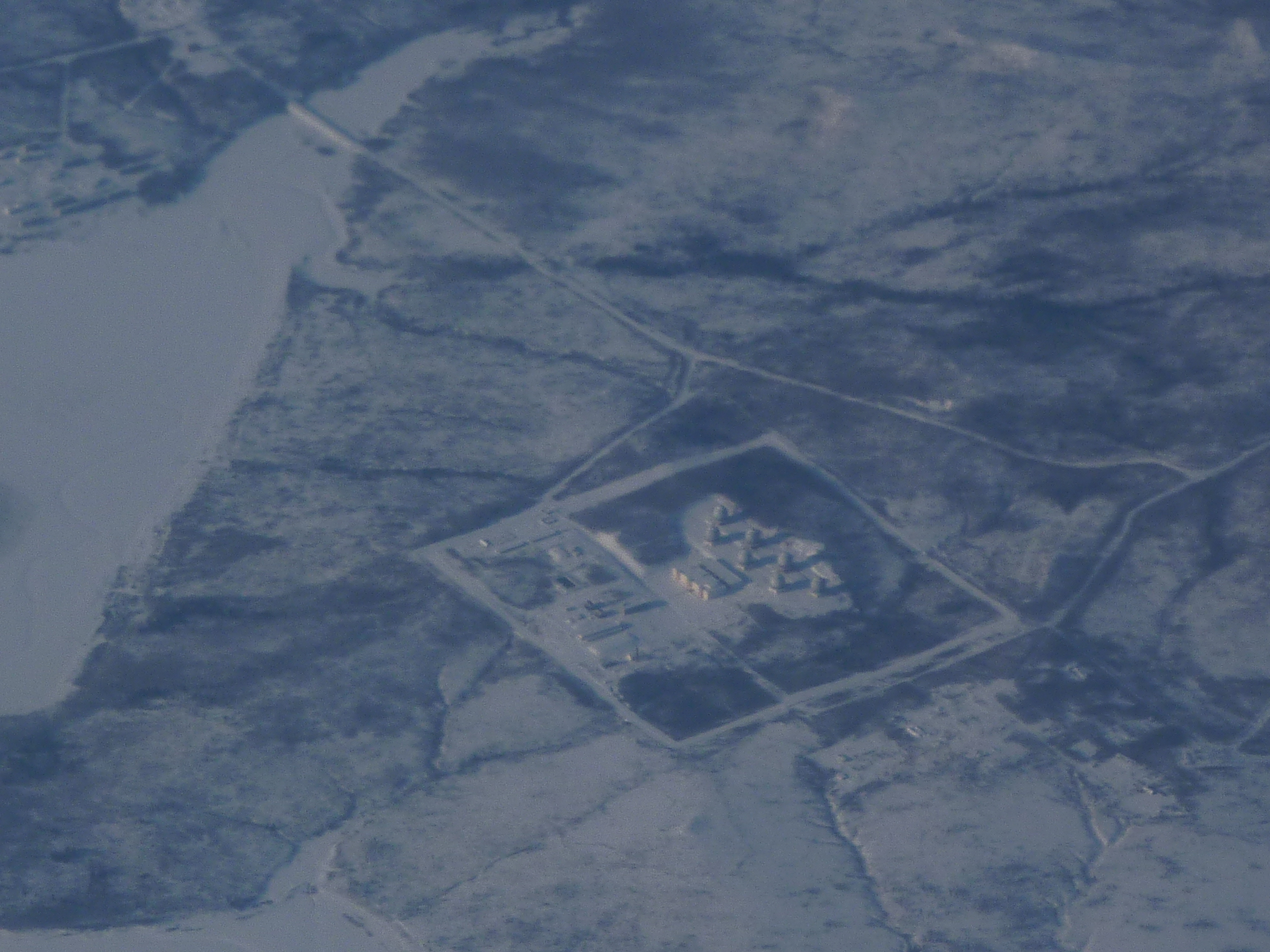 An industrial (?) structure of some kind near Lake Khummi, in the southern suburbs of Komsomolsk-na-Amure. Photo taken from an AA aircraft on a non-stop ORD-PVG flight